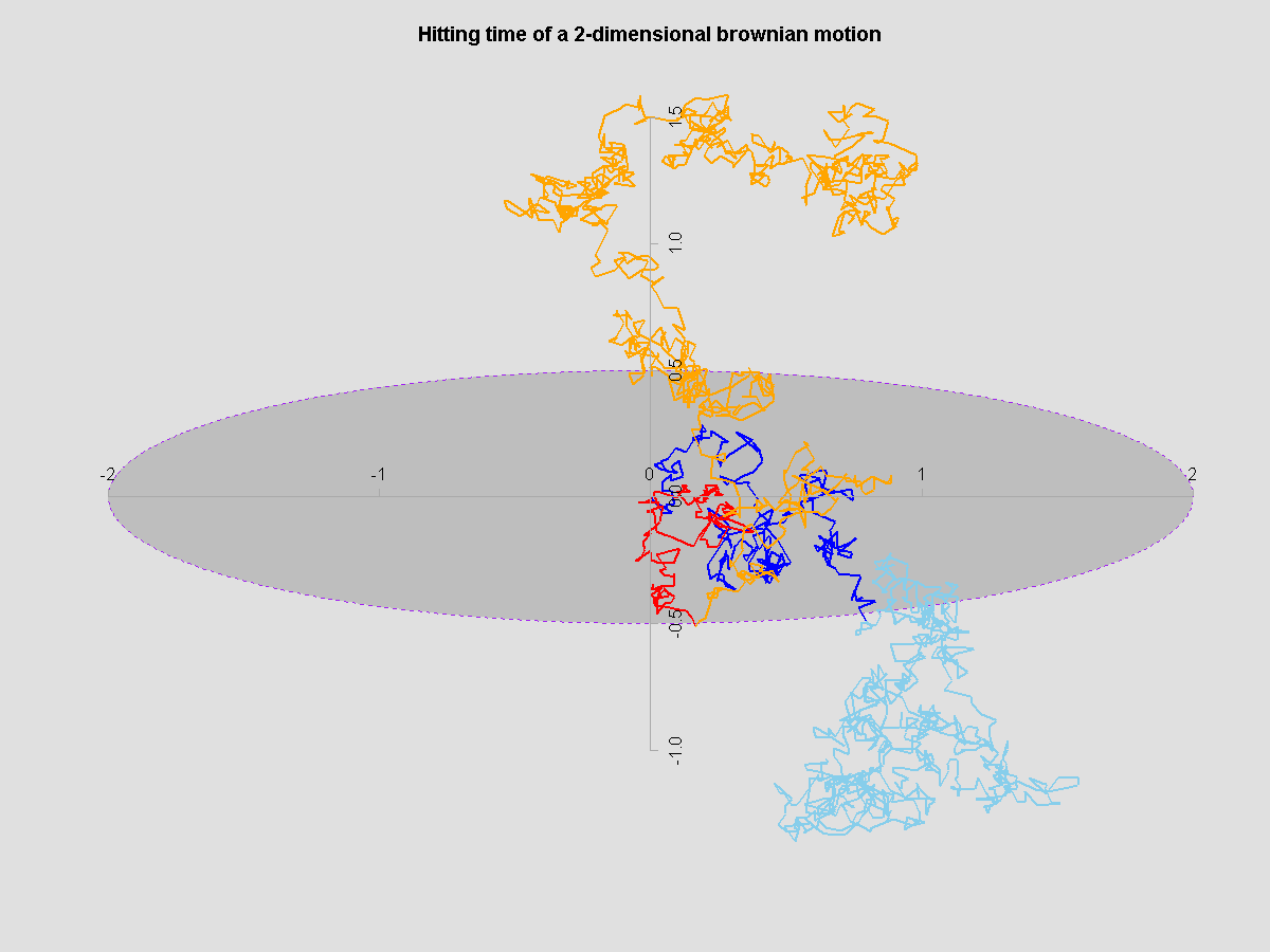 hitting time of a 2-dim brownian motion; a is an ellipse